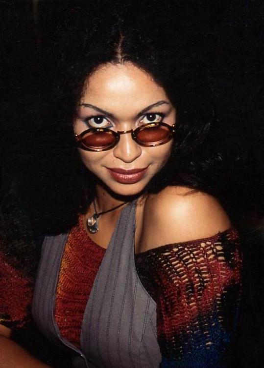 Camilla "La Camilla" Henemark, as released by image creator Lars Jacob ProdPlace: Berns, Berzelii Park, Stockholm, Sweden